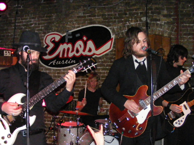 Louis XIV performing at Emo's in Austin, TX during South by Southwest (2008). Photo by Ron Baker.